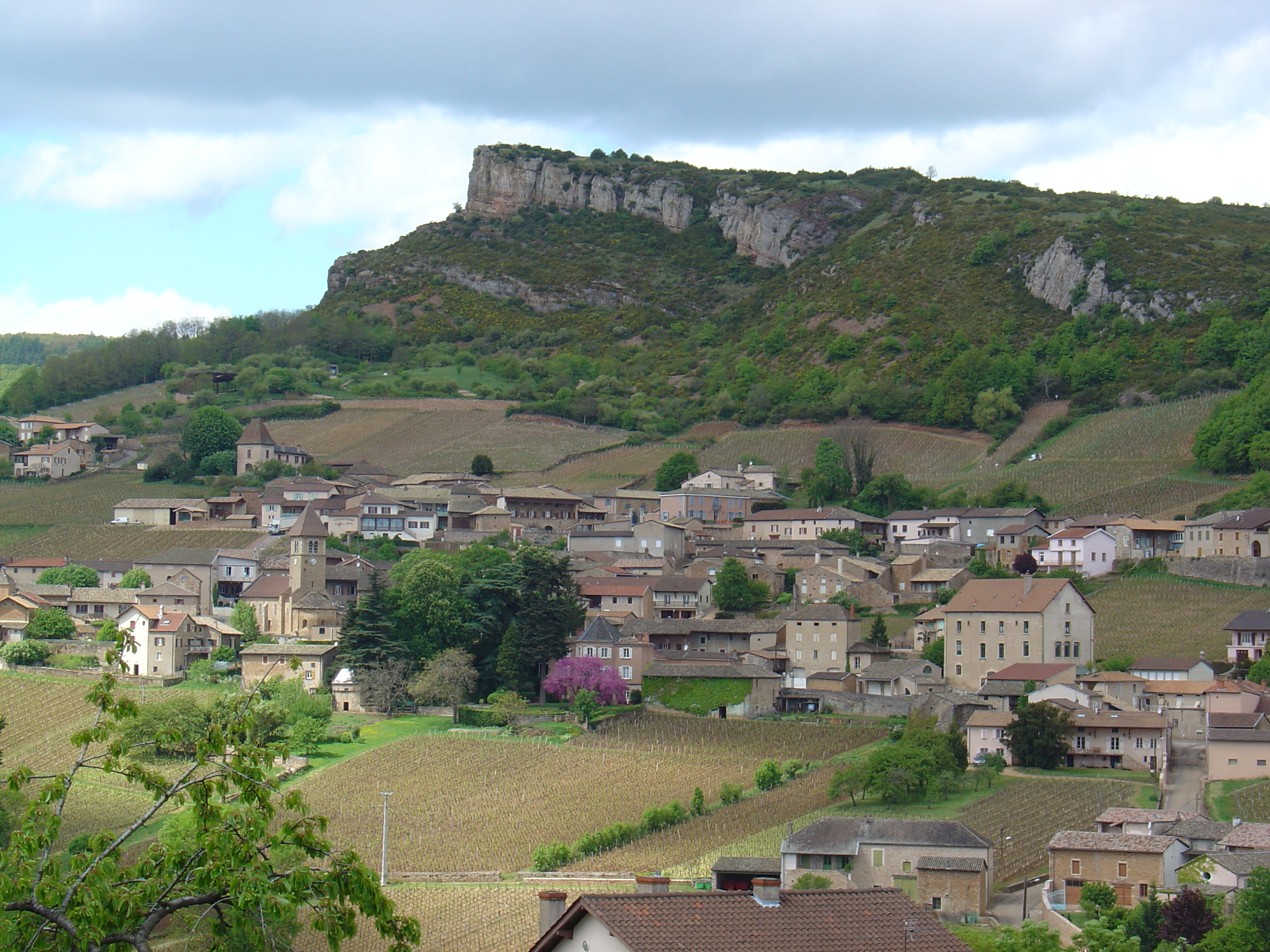 Solutré-Pouilly - Saône et Loire (71), France